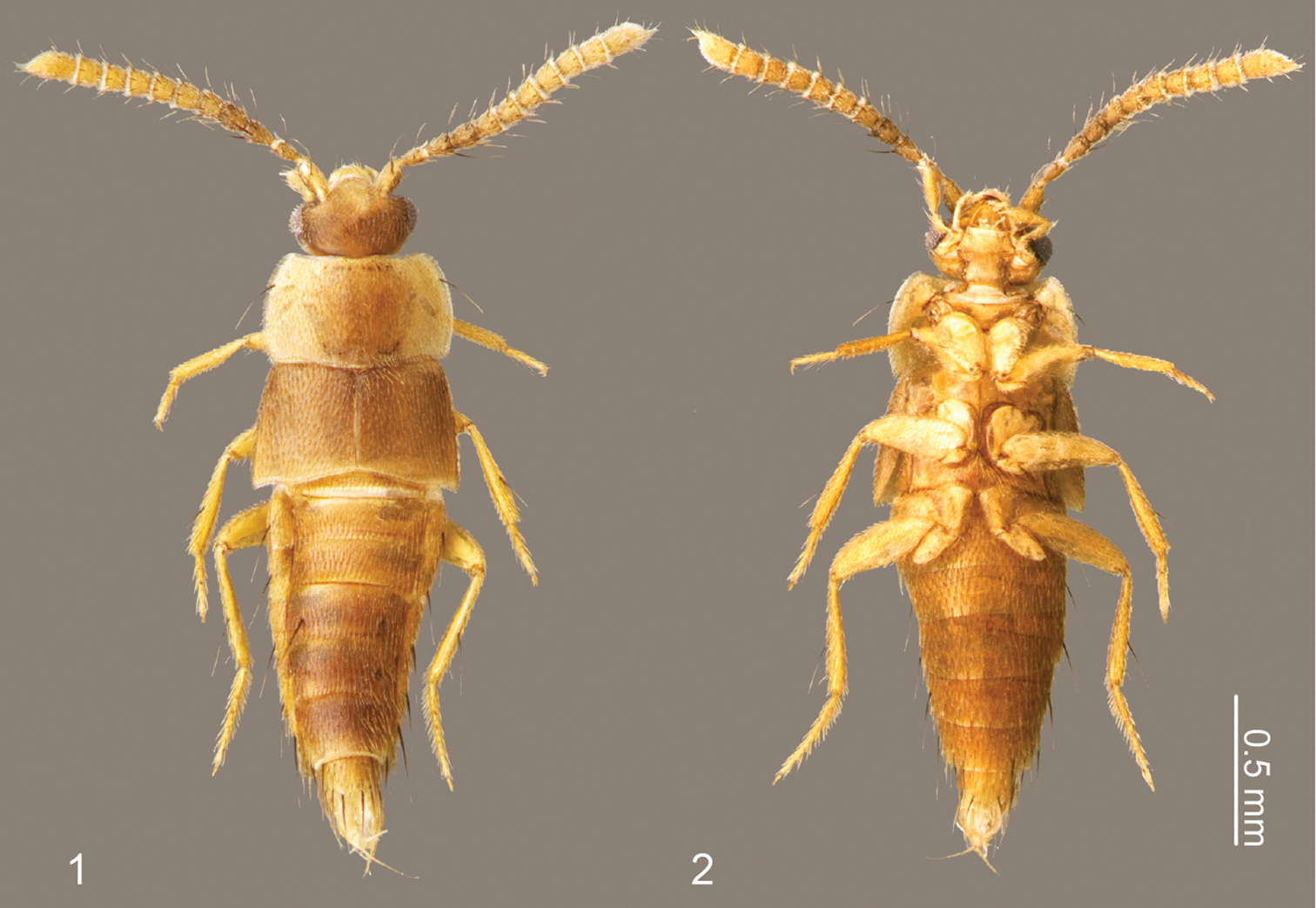 Habitus of Neotermitosocius bolivianus. 1 dorsal view 2 ventral view.